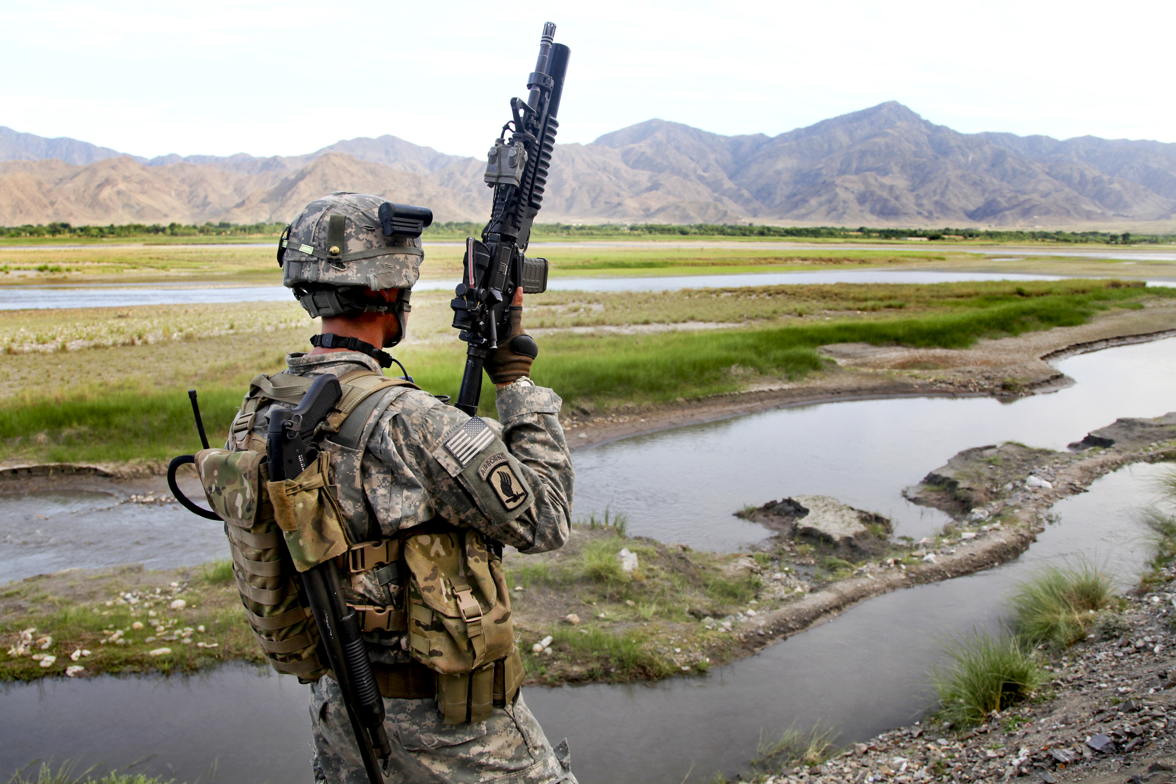 Sgt. David M. Pooler scans the area across the Kunar River as he provides security in the Noorgal district in Afghanistan's Konar province, May 1, 2010. This was part of a community development council meeting. Pooler is assigned to Company A, 2nd Battalion, 503 Airborne Infantry Regiment, 173 Airborne Brigade Combat Team.